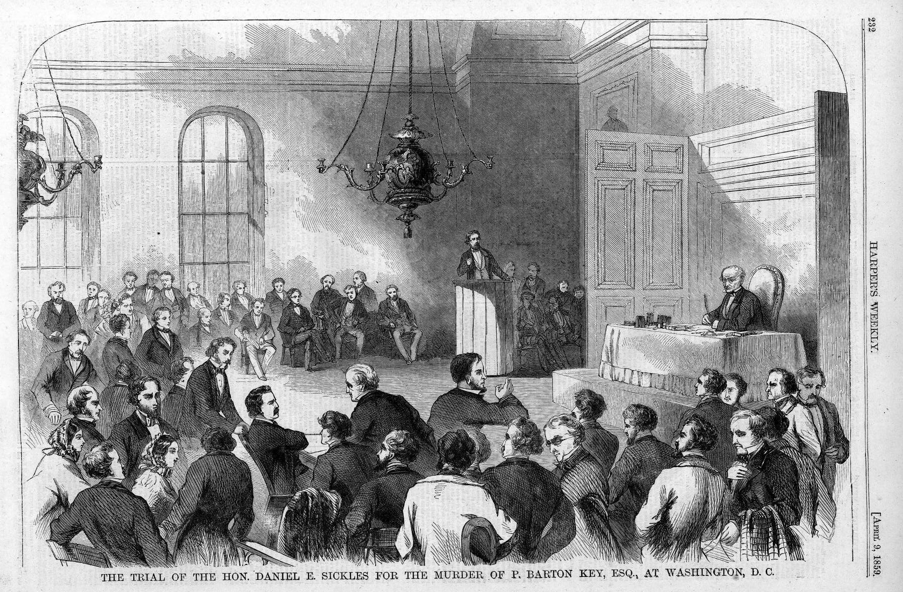 Harper's Weekly engraving of the Dan Sickles murder trial in Washington, D.C., 1859.